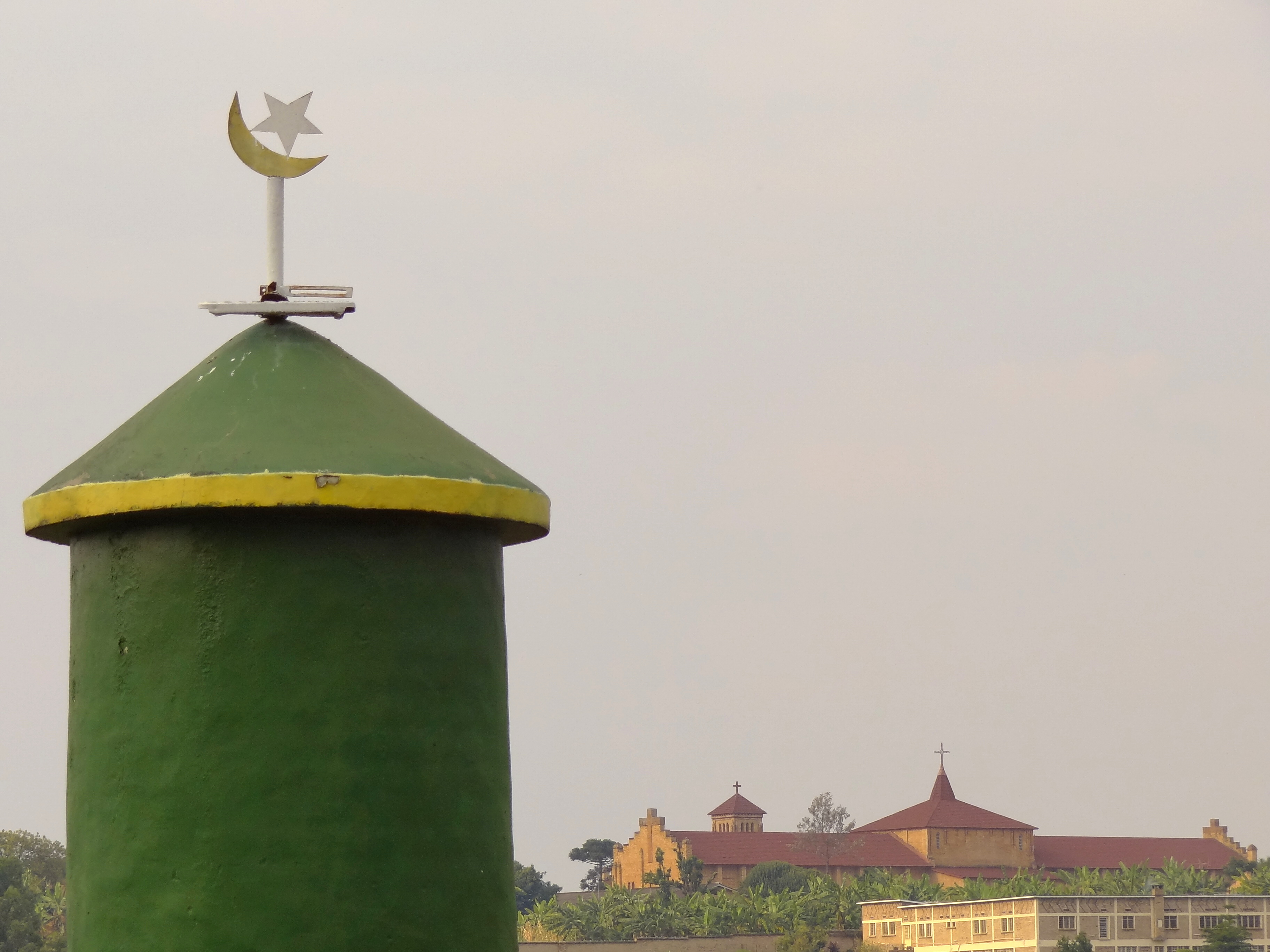 Mosque Minaret with Catholic Cathedral at Rear - Huye-Butare - Southern Rwanda